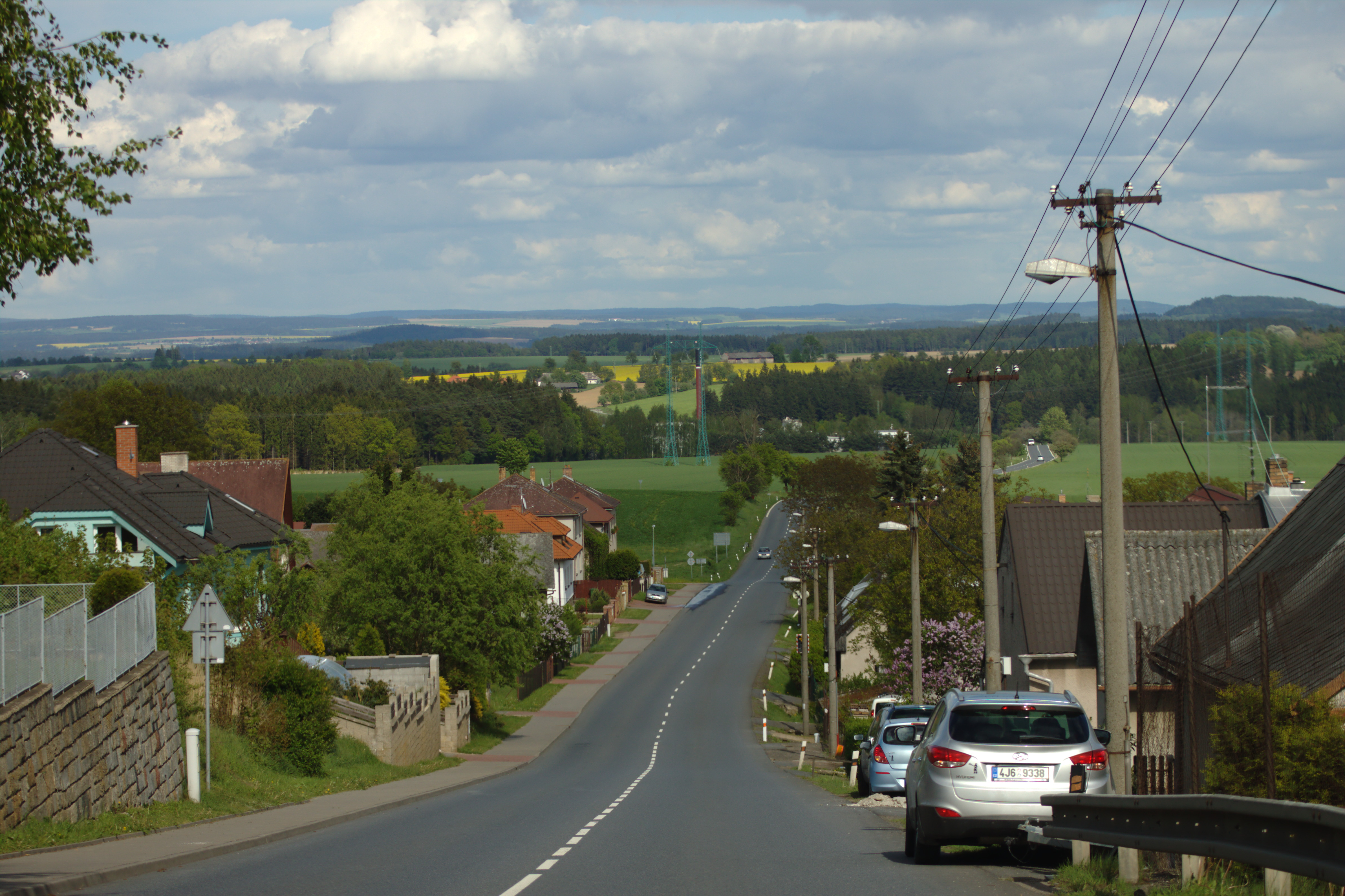 Main road in the town of Věž, CZ